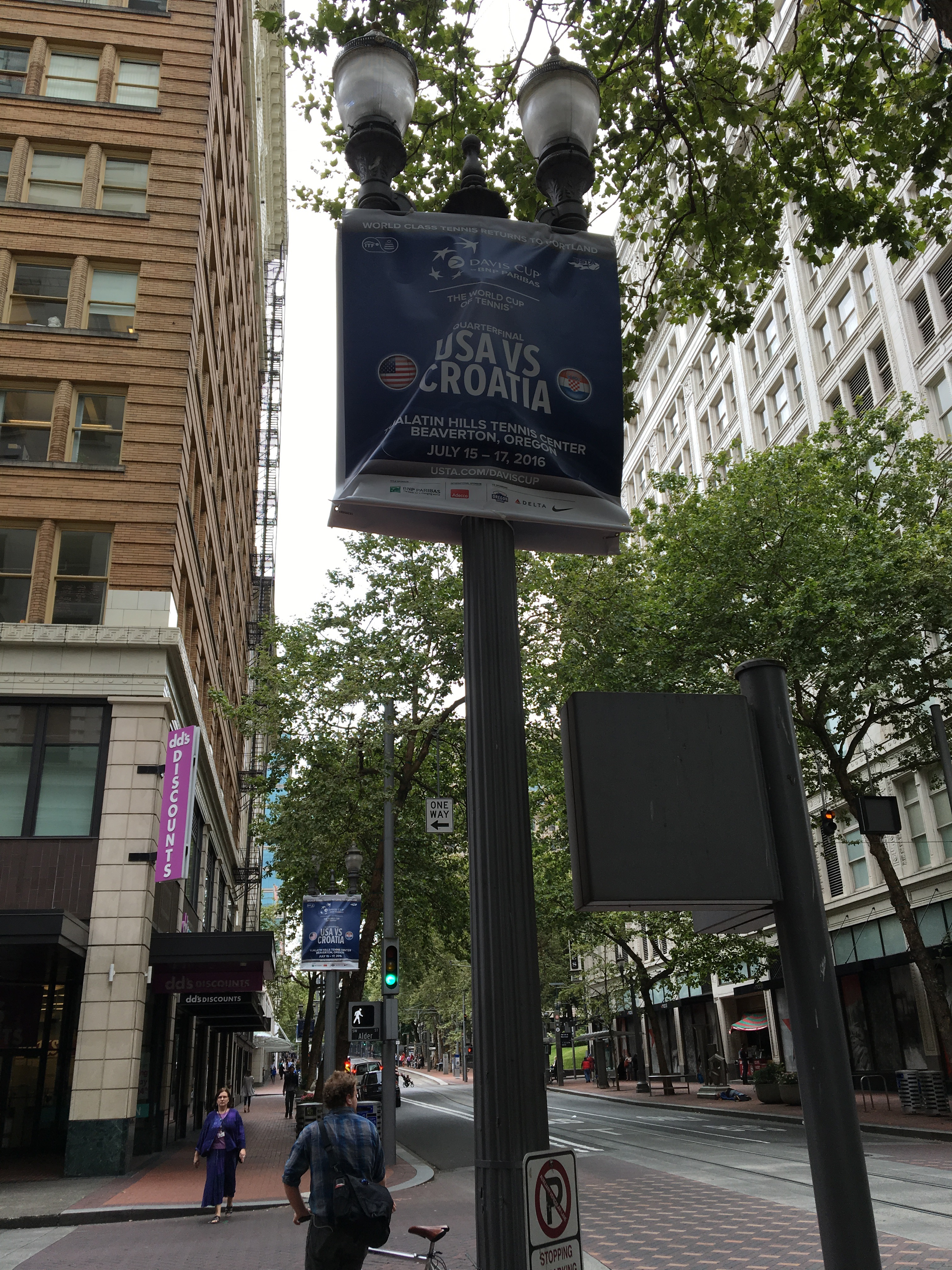 July 2016